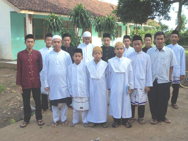 santri Miftahul Khaer